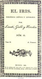 This ad for El Iris appeared in the Mexican newspaper El Águila on 13 January 1826, offering a pleasant distraction to all interested in letters, particularly the fair sex.